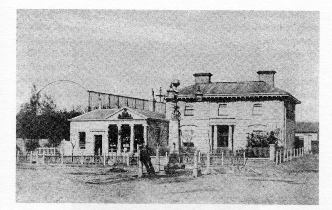 Ormond House, Epsom 1860s library and printing shop of Henry Dorling, step-father of Isabella Beeton